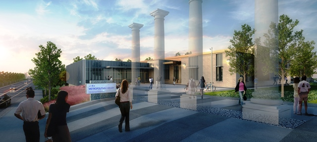 Metropolitan Branch Rendering